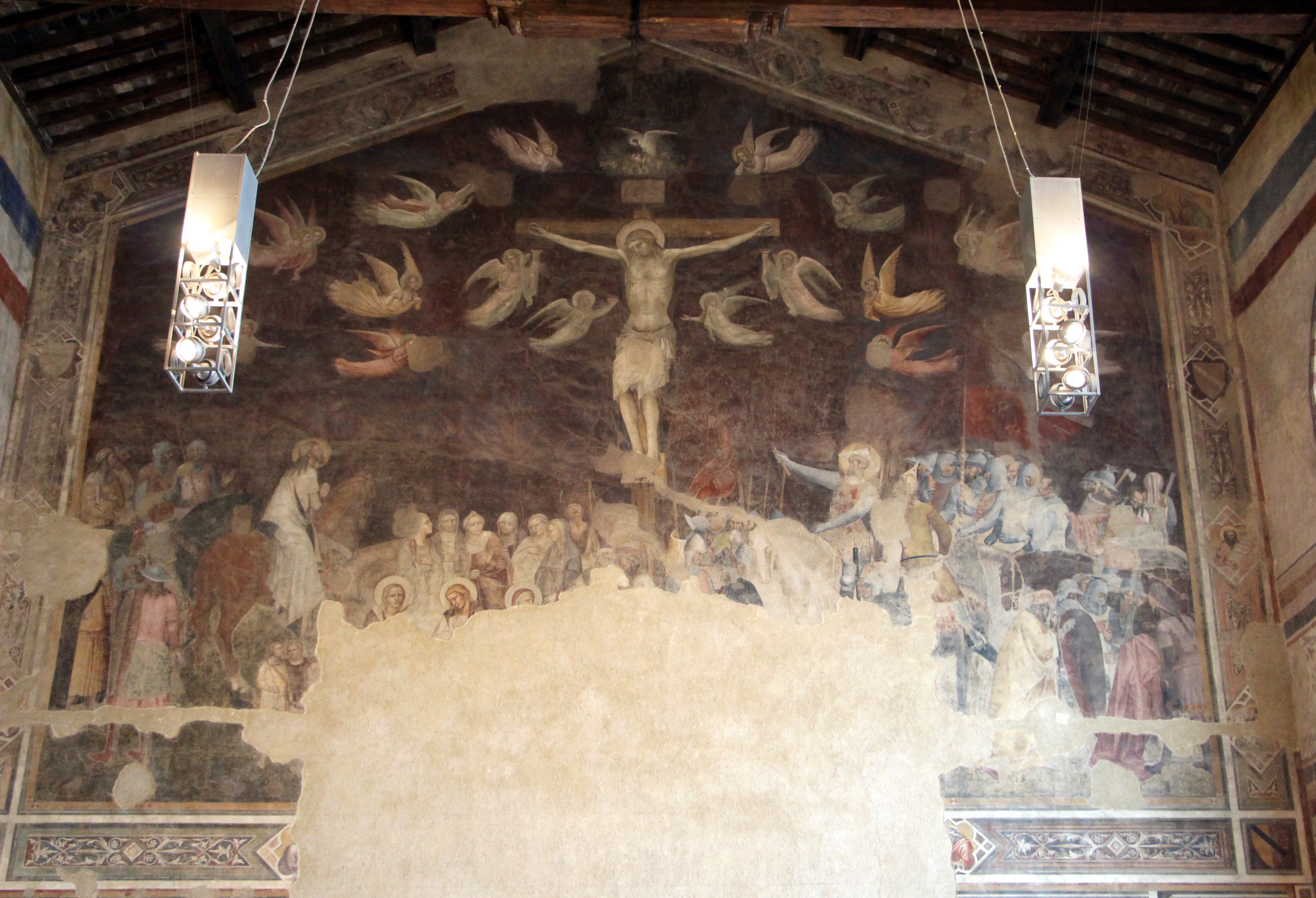 Santo Spirito refectory frescos